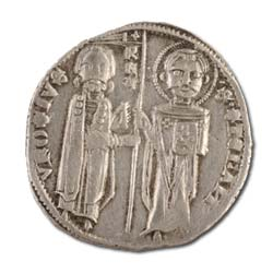 Medieval coin (крстасти динар/crossed dinar) of king Milutin with saint Stephen